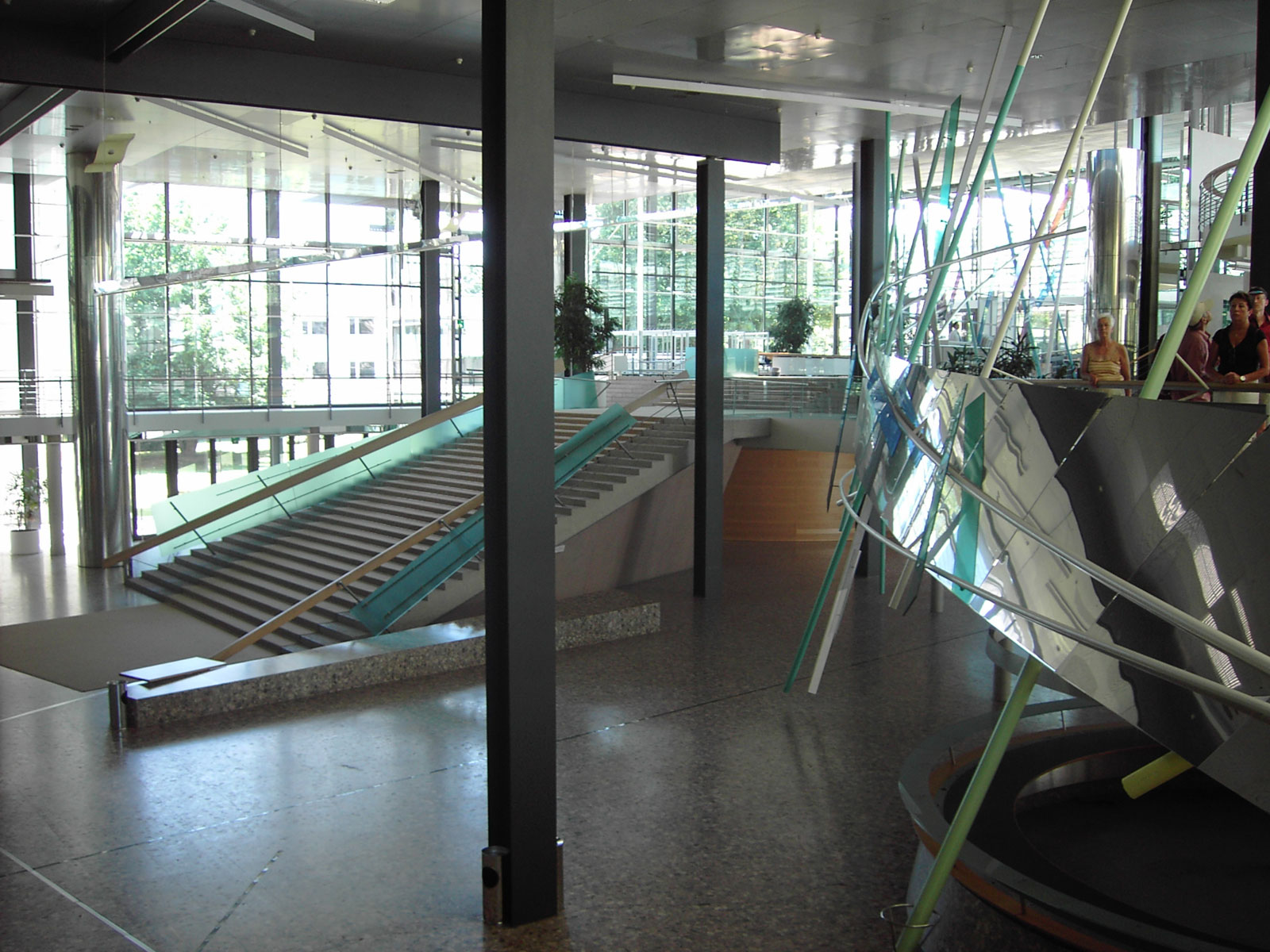 Foyer of the new Bundestag building in Bonn. The balcony on the right hand side was accessible for visitors, the stairs on the left were the main entrance the members of parliemant used.